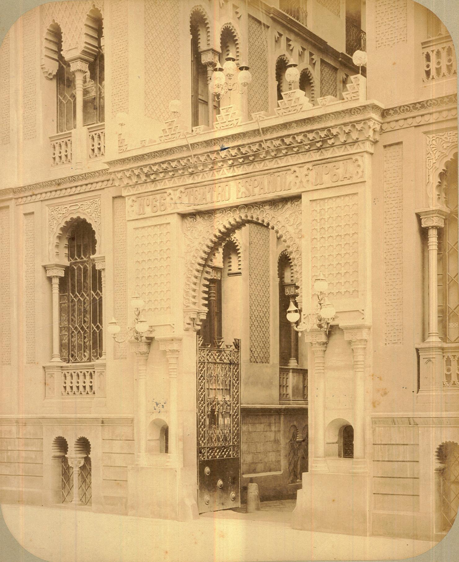 Old Teatro Español, at Passeig de Gracia in Barcelona, demolished ca. 1900; projected by Antoni Rovira i Trias